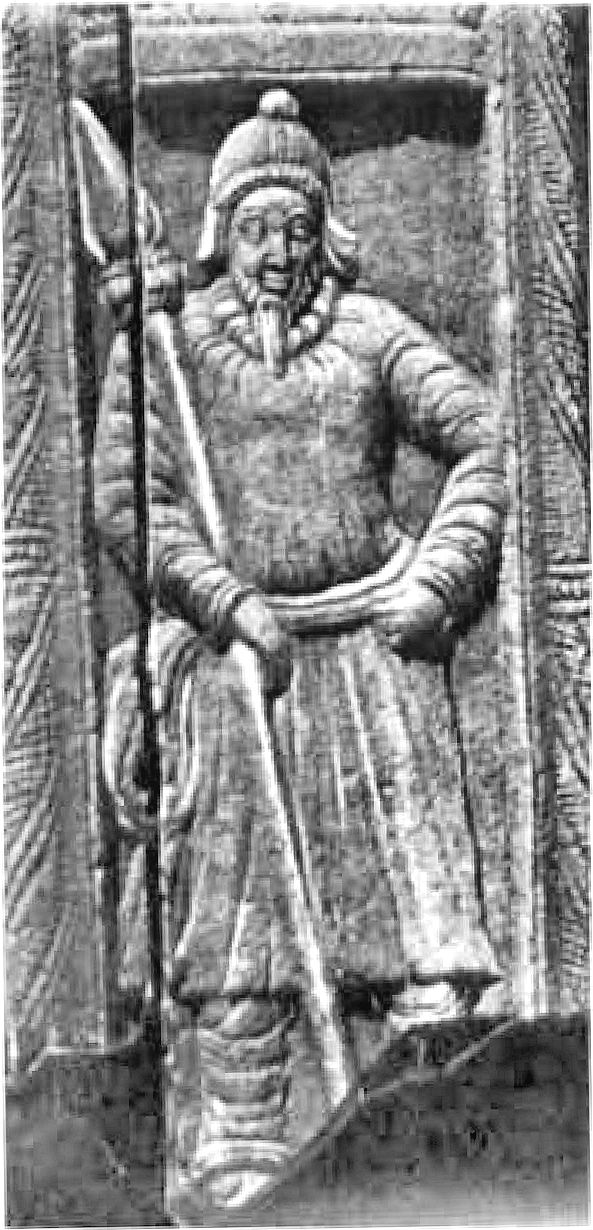 Nagarjunakonda Scythian soldier Palace site. "In Nagarjunakonda Scythian influence is noticed and the cap and coat of a soldier on a pillar may be cited as an example.", in (in English) (1961) Indian Sculpture, Allied Publishers, p. 51 . "A Scythian dvarapala standing wearing his typical draperies, boots and head dress. Distinct ethnic and sartorial characteristics are noreworthy.", in (in English) (1982) Life and Art of Early Andhradesa, Agam, p. 249 . Another similar relief of a Scythian guard